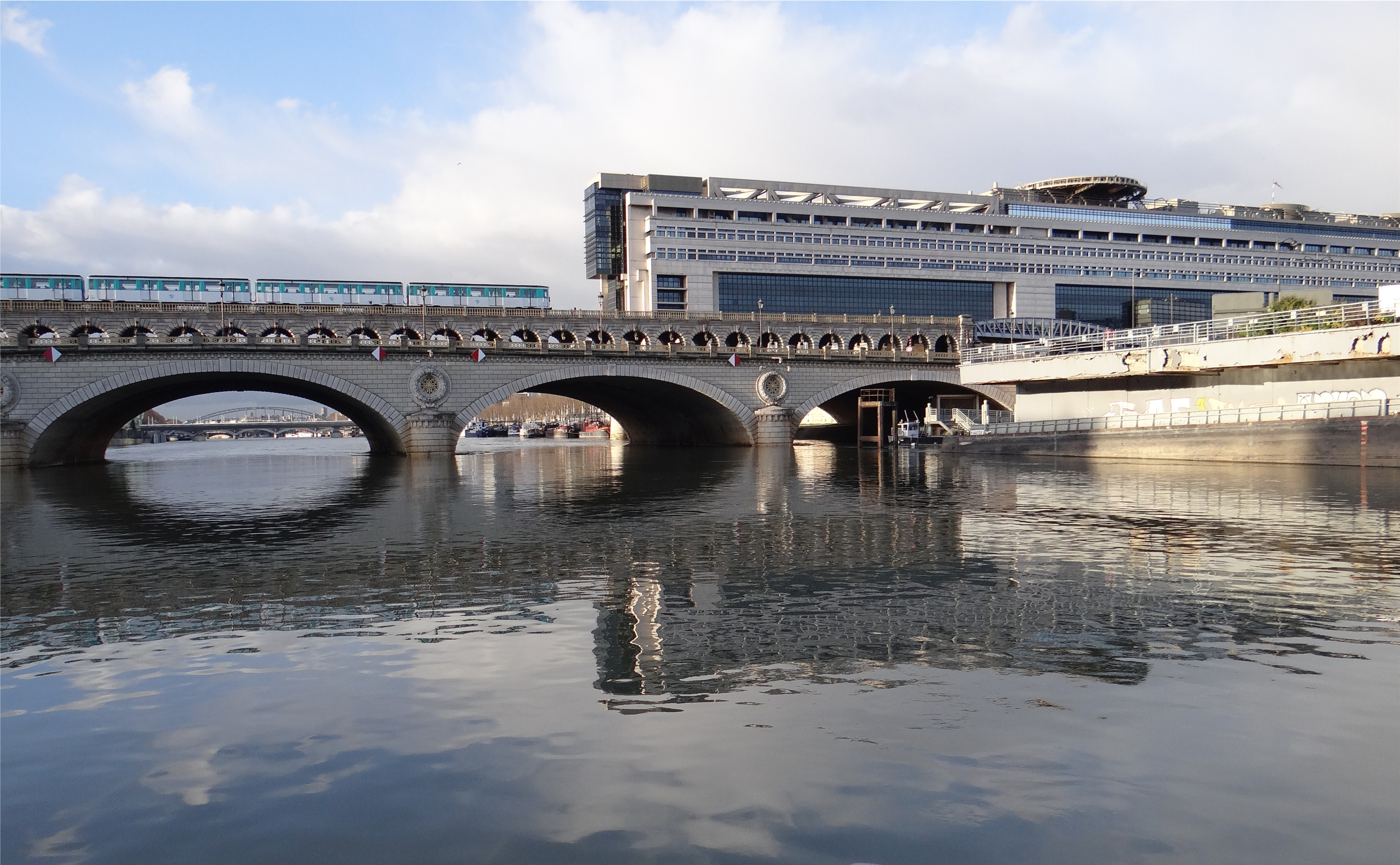 Ministry of Economy, Finance and Industry, viewed from the Seine, Paris, France